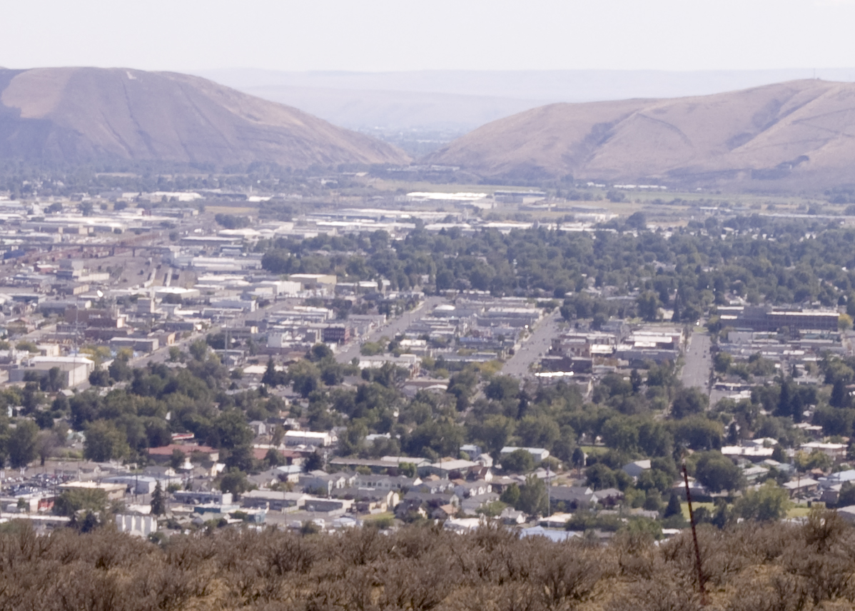 Yakima, WA, from Lookout Point (Union Gap in center of image)